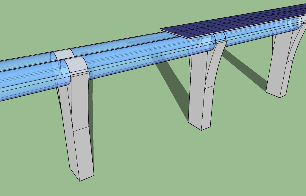 Model of the Hyperloop system as described by Elon Musk. This shows the tubes on pylons and an example of solar panel placement. A full proposal of the project can be found at